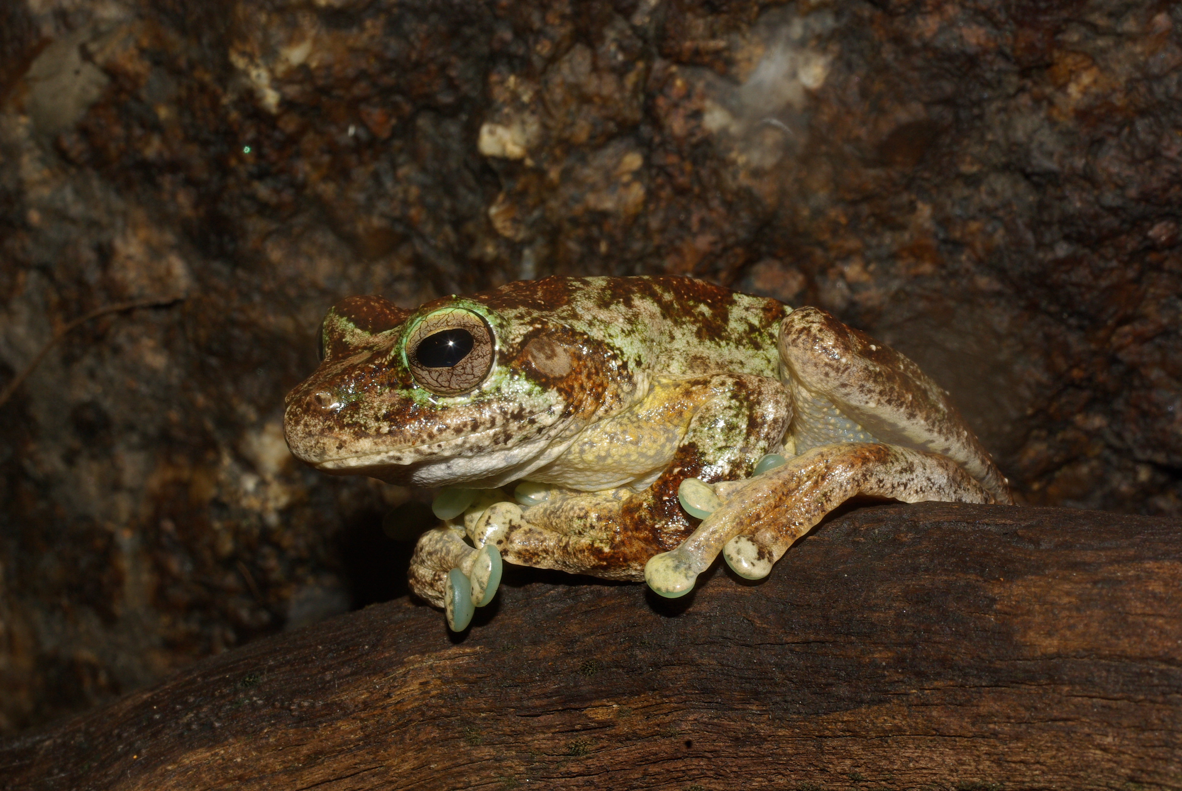 Green-eyed Treefrog (Litoria genimaculata) female under a waterfall in the McLeod Falls/Mount Spurgeon area of Queensland, Australia.